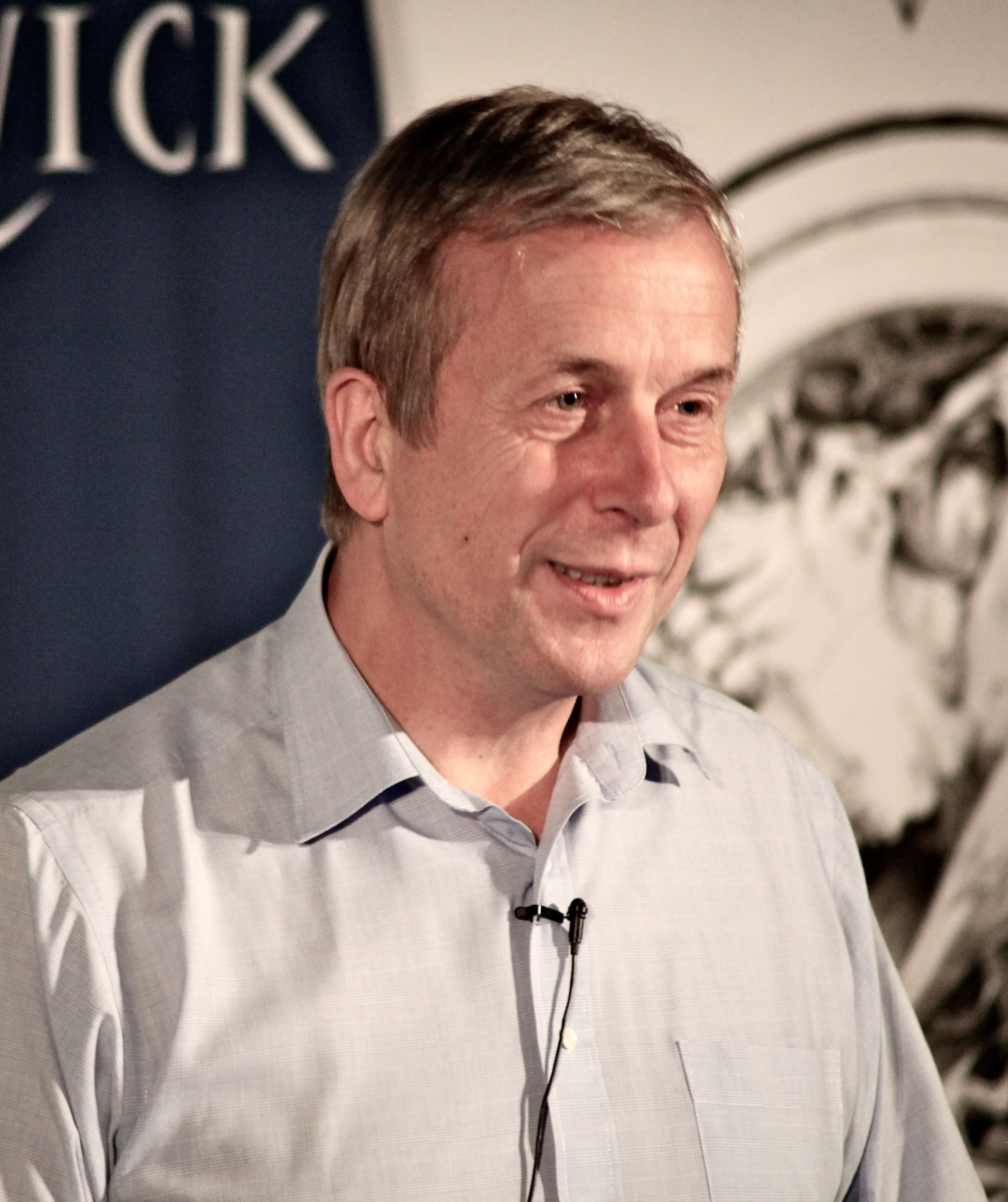 Kevin Warwick at VirtualFutures